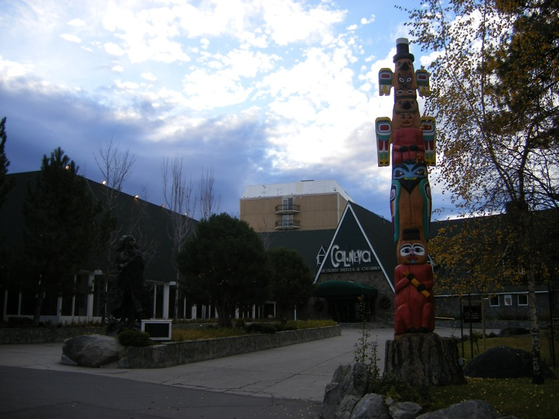 Hotel once owned by Frank Sinatra